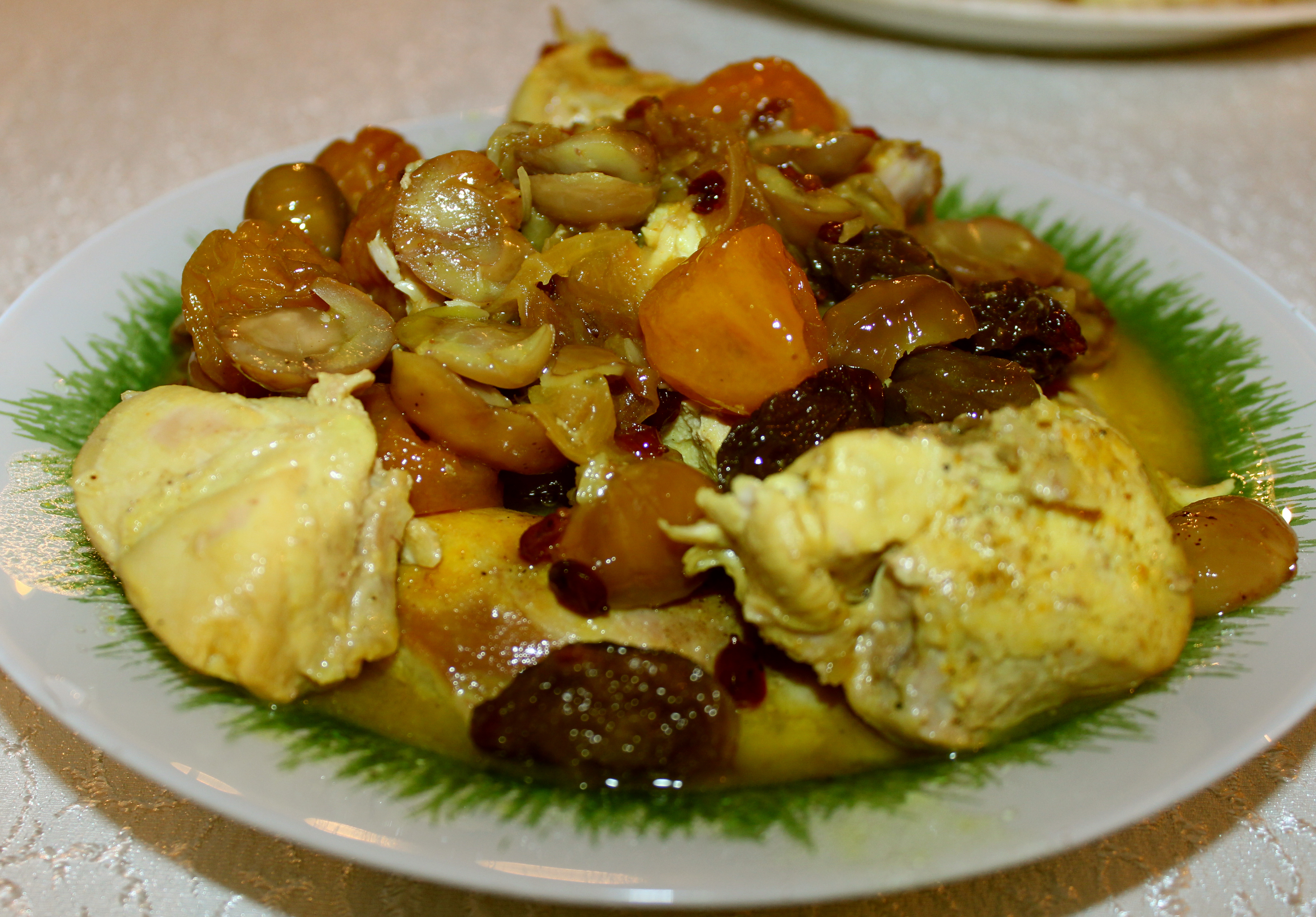 Azerbaijani aşqara